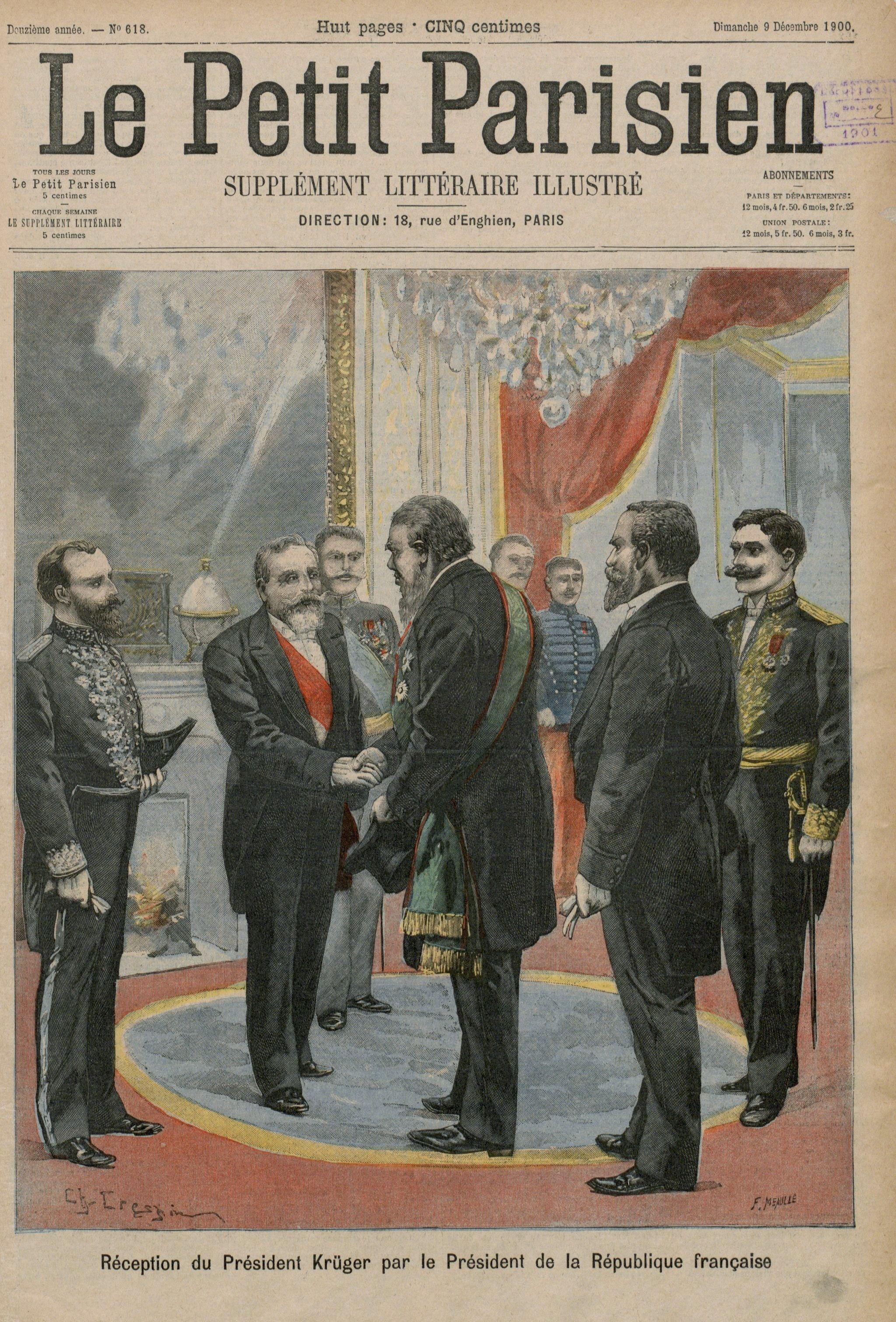 President of the French Republic Emile Loubet (1838-1929) welcoming President of the Transvaal Republic Paul Kruger (1825-1904) to the Elysee Palace, in Paris. Frontpage of French newspaper Le Petit Parisien. December 8, 1900